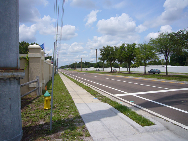 I took this photo looking north on Sheldon Road at the Upper Tampa Bay Trail in Tampa, FL.